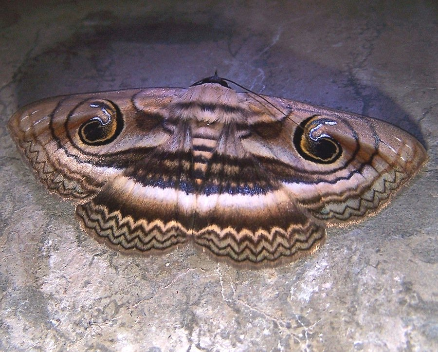 Spirama recessa (Noctuidae: Catocalinae) on a laundry tub. Photo taken in Townsville, Australia.